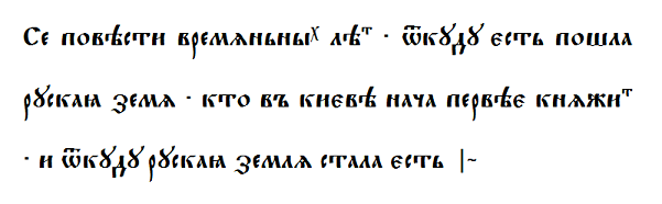 The opening of the Old Rus' (Old Russian, Ruthenian, Ukrainian, East Slavic) Primary Chronicle from the Laurentian codex of 1377. The typeface is a semi-uncial (R полуустав /poluustav/) based on that used by Ivan Fedorov for his 1564 edition of the Acts of the Apostles (R Апостол /apostol/), the earliest printed Russian book that unequivocally identifies the publisher.